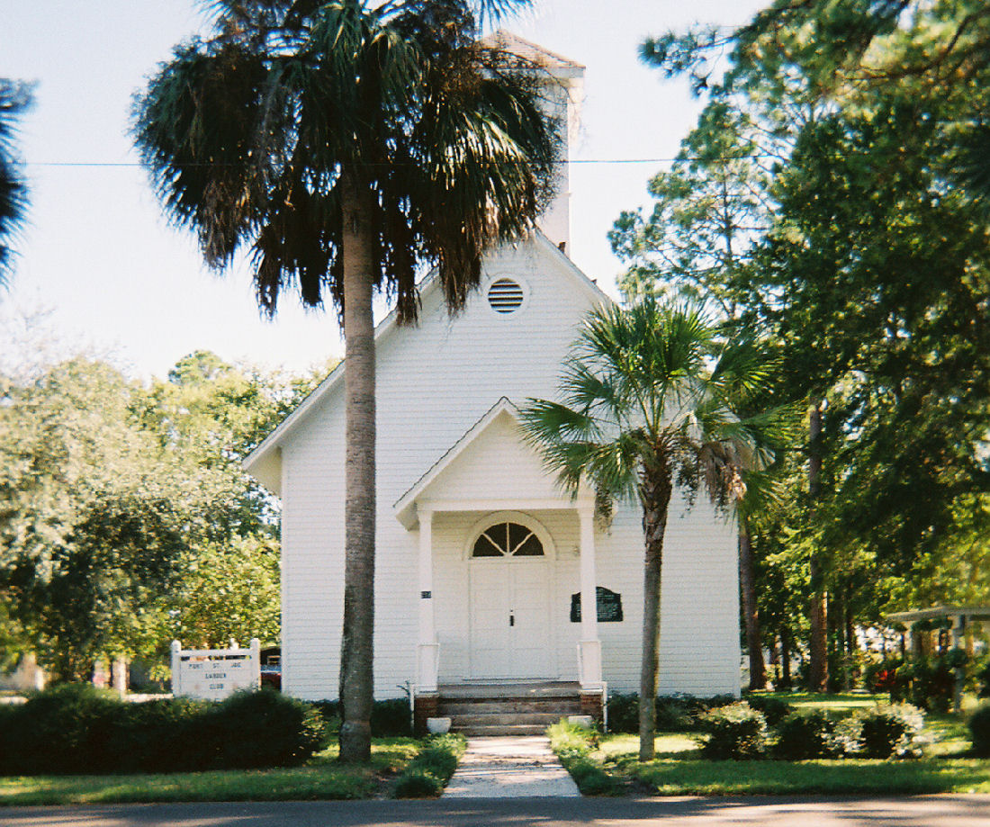 Port St. Joe, Florida: St. Joseph Catholic Mission Church.